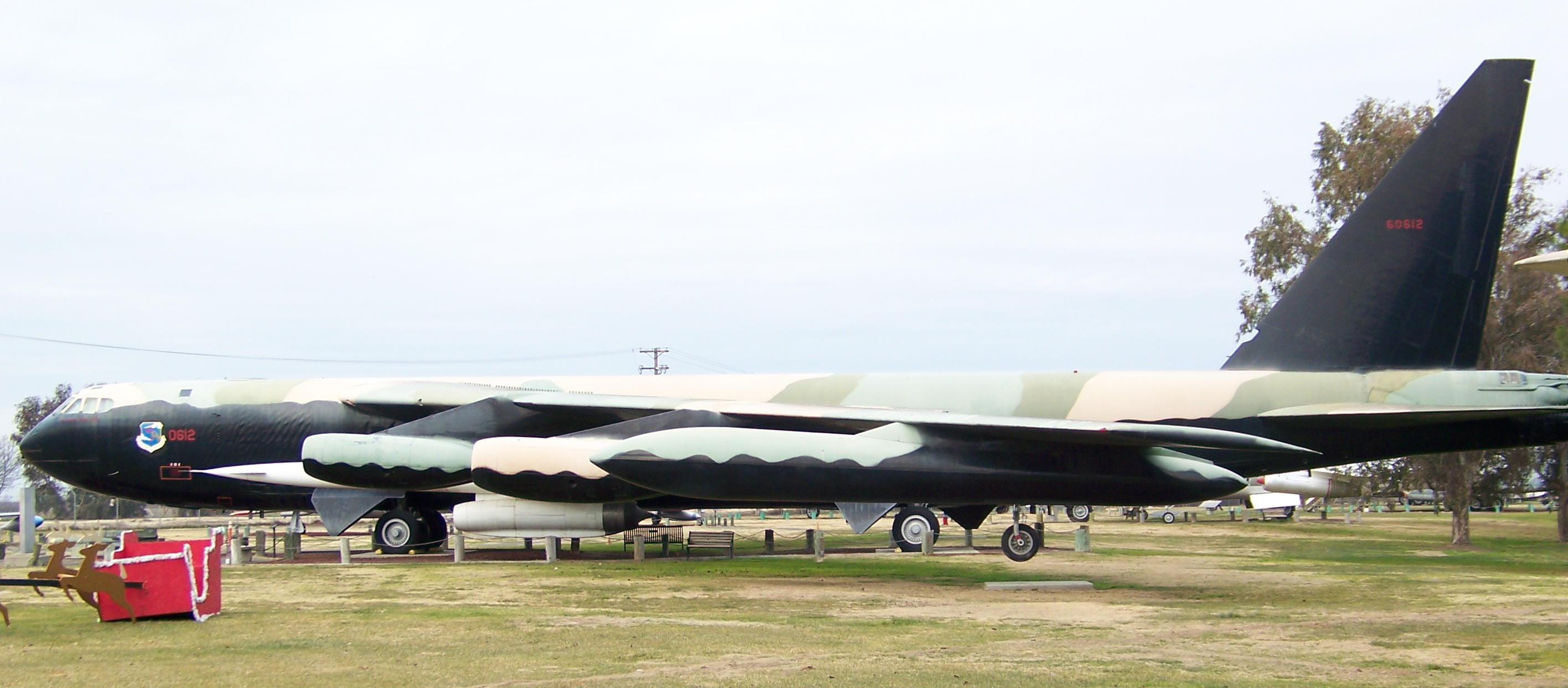 A Boeing B-52D Stratofortress on display at the Castle Air Museum in Atwater, California.